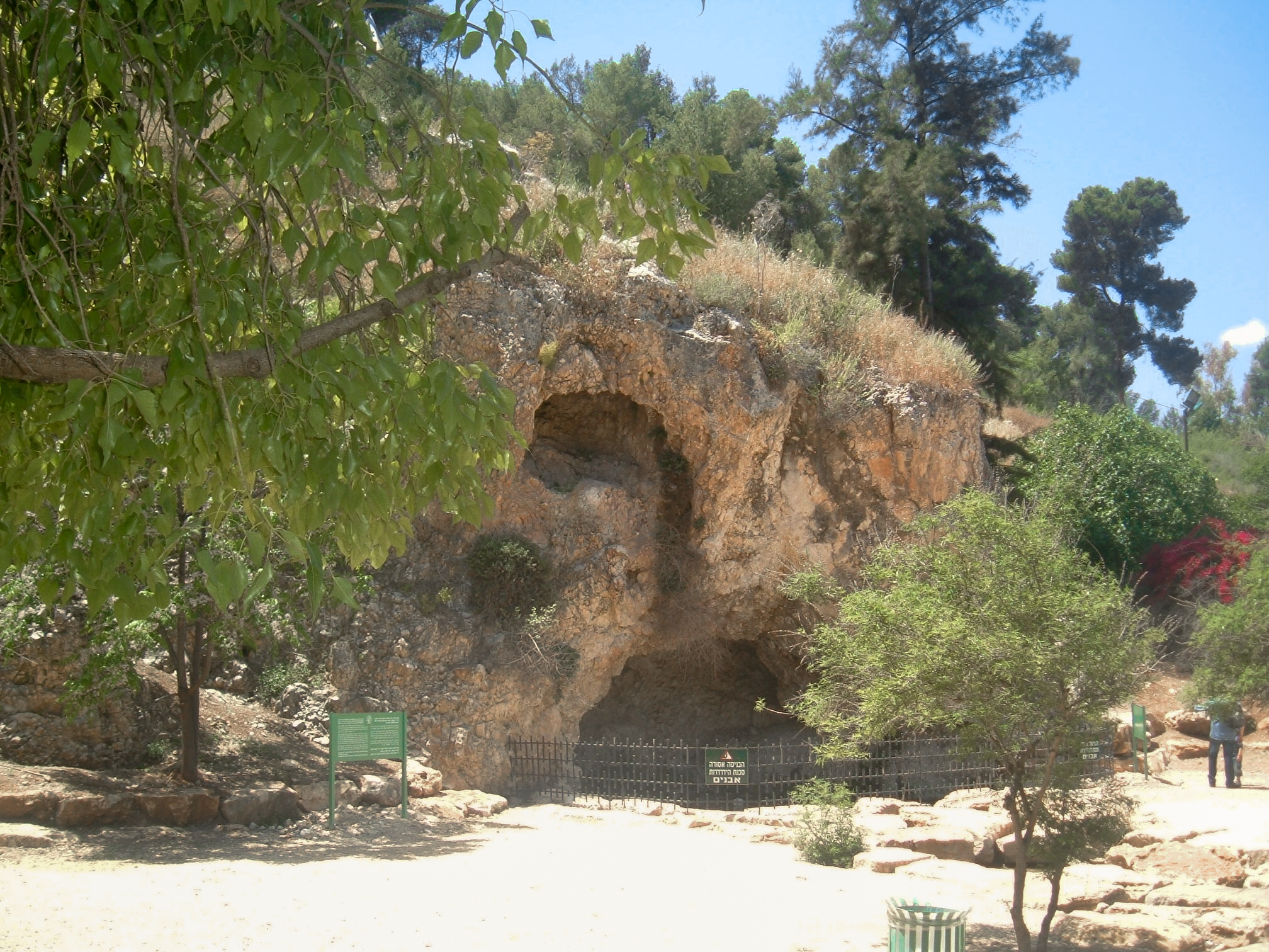 gideons cave in maayan harod national garden israel מערת גדעון בגן הלאומי במעיין חרוד